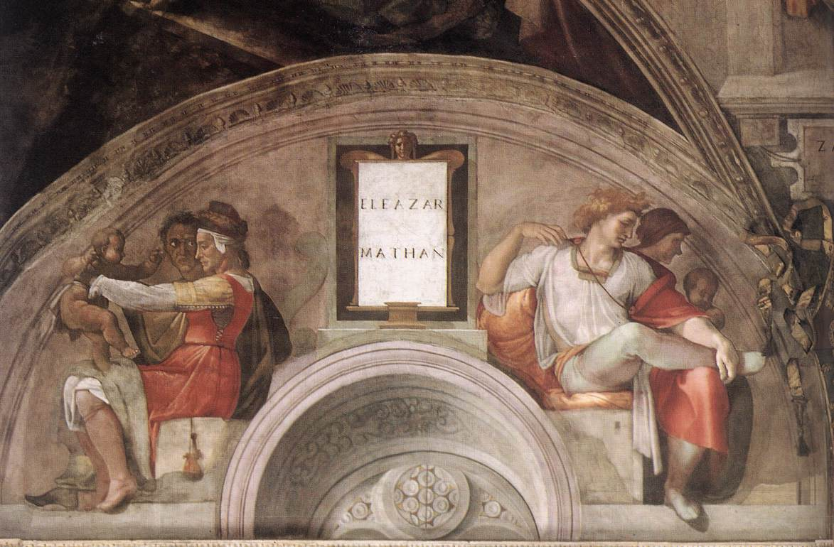 MICHELANGELO di Lodovico Buonarroti Simoni (b. 1475, Caprese, d. 1564, Roma) Eleazar - Matthan 1511-12 Fresco, 215 x 430 cm Cappella Sistina, Vatican "Eliud begat Eleazar. Eleazar begat Matthan. Matthan begat Joseph." (Matthew 1:15) Eleazar, father of Matthan is generally believed to be the young man on the right. His head is seen in profile, and he appears to be immersed in his thoughts. Behind him are visible the heads of a woman and a child. In the left part of the lunette, Matthan, in the background, seems to be turning with an expression of astonishment or apprehension toward his wife, who, seated and seen in profile, plays with the child Jacob, who frisks on her knee. This lunette was probably the first to be frescoed by Michelangelo. --- Keywords: -------------- Author: MICHELANGELO di Lodovico Buonarroti Simoni Title: Eleazar - Matthan Time-line: 1501-1550 School: Italian Form: painting Type: religious